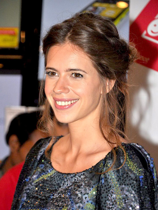 Kalki Koechlin unveils Nokia Lumia 820 & 920 mobile.